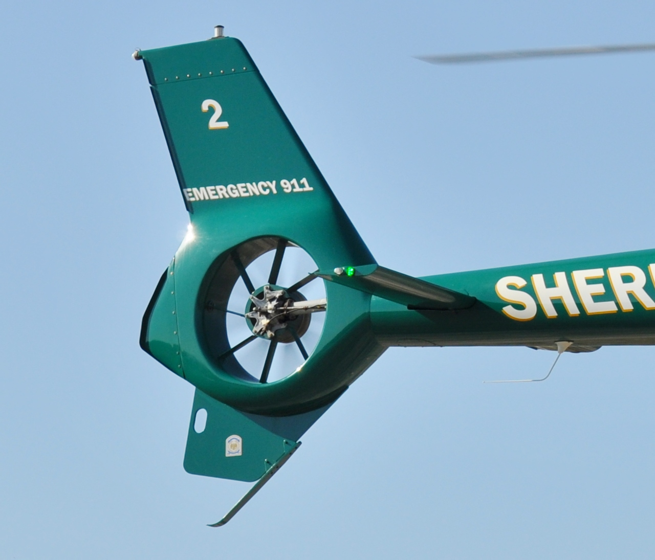 Tail of an EC120 helicopter